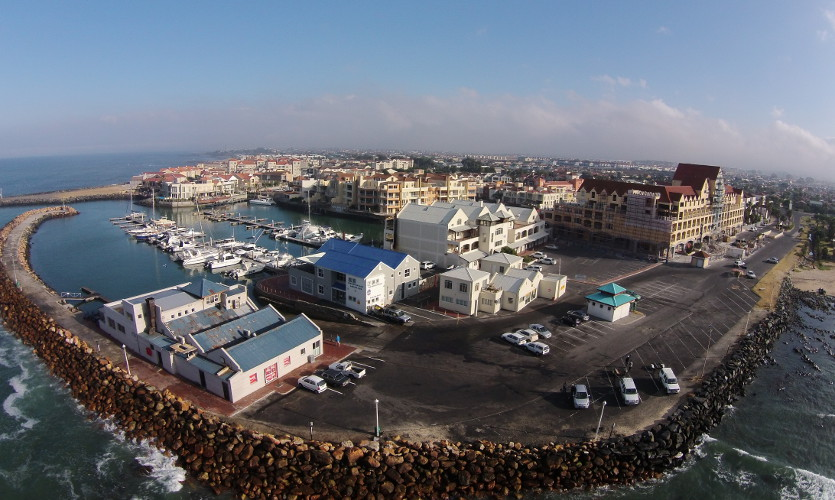 Gordon's Bay is the smallest of three towns in the Helderberg region, so named after the Helderberg Mountain which is part of the Hottentots-Holland Mountains which dwarf the locality on two sides. Gordon's Bay was originally named "Fish Hoek", many years before the town of the same name, located on the western side of False Bay, was founded